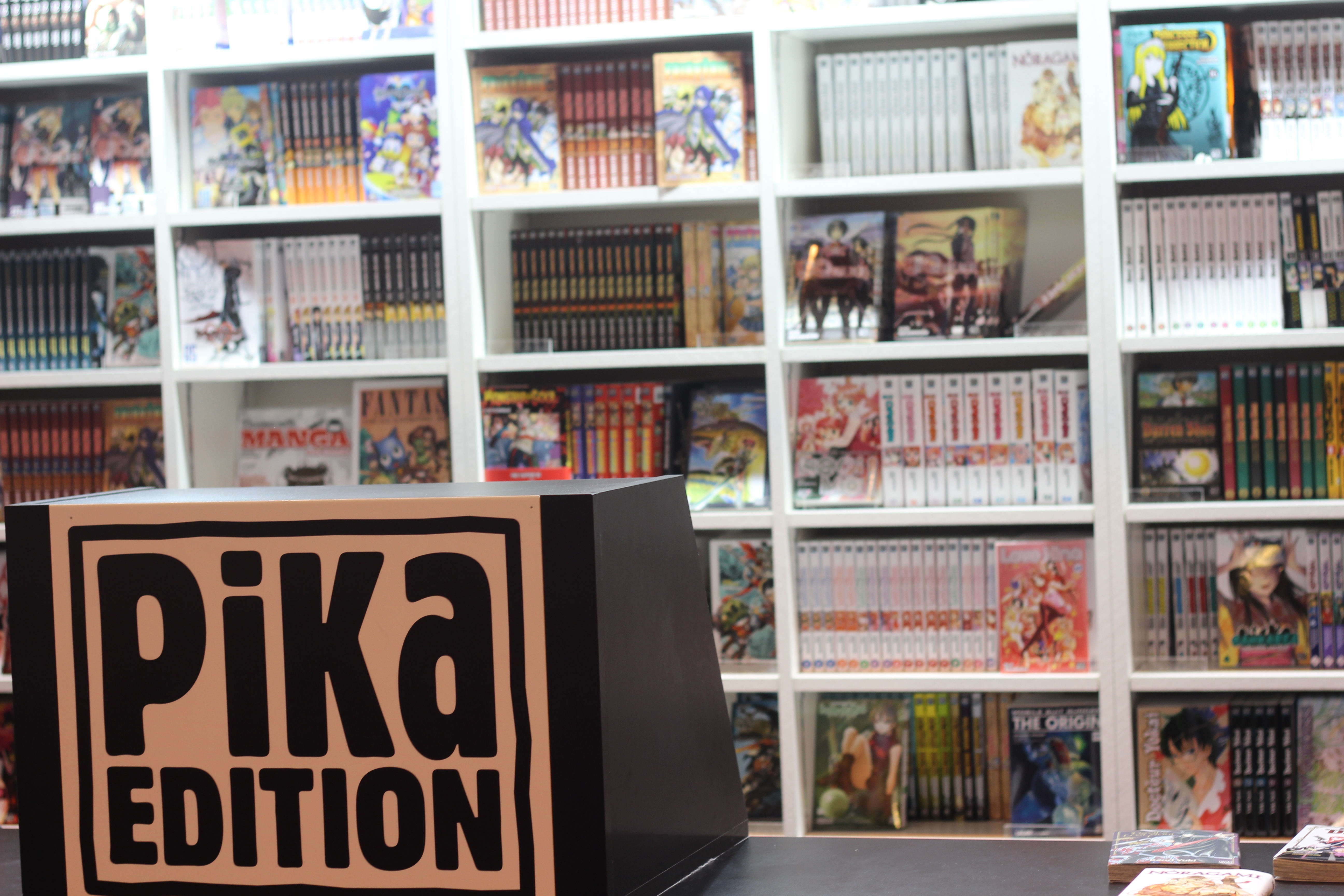 2015 Paris Book Fair, from 20 to 23 March 2015, Paris expo Porte de Versailles.